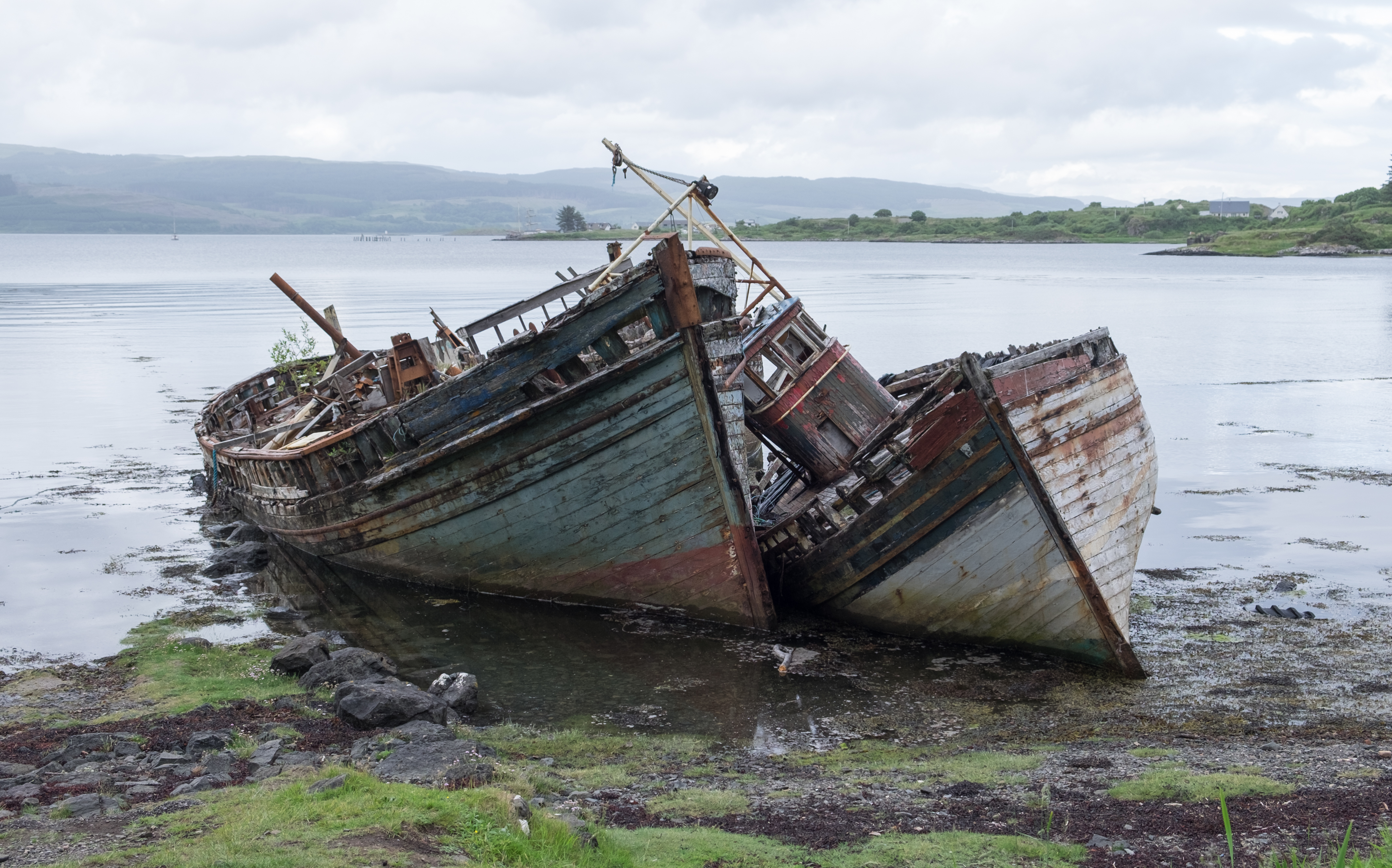 Abandoned and rotting fishing boat hulks near Salen, Isle of Mull.